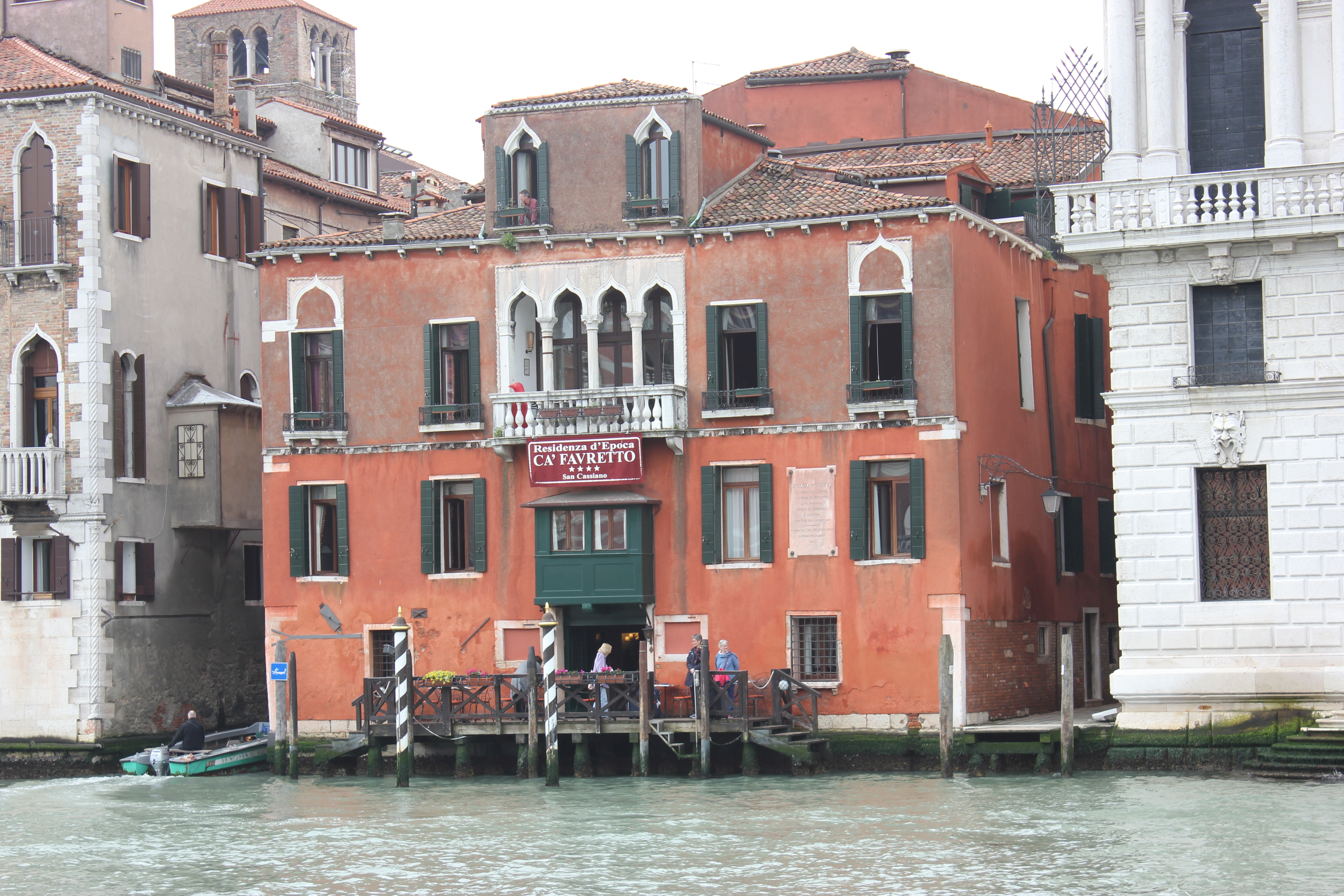 Venice - Ca' Favretto